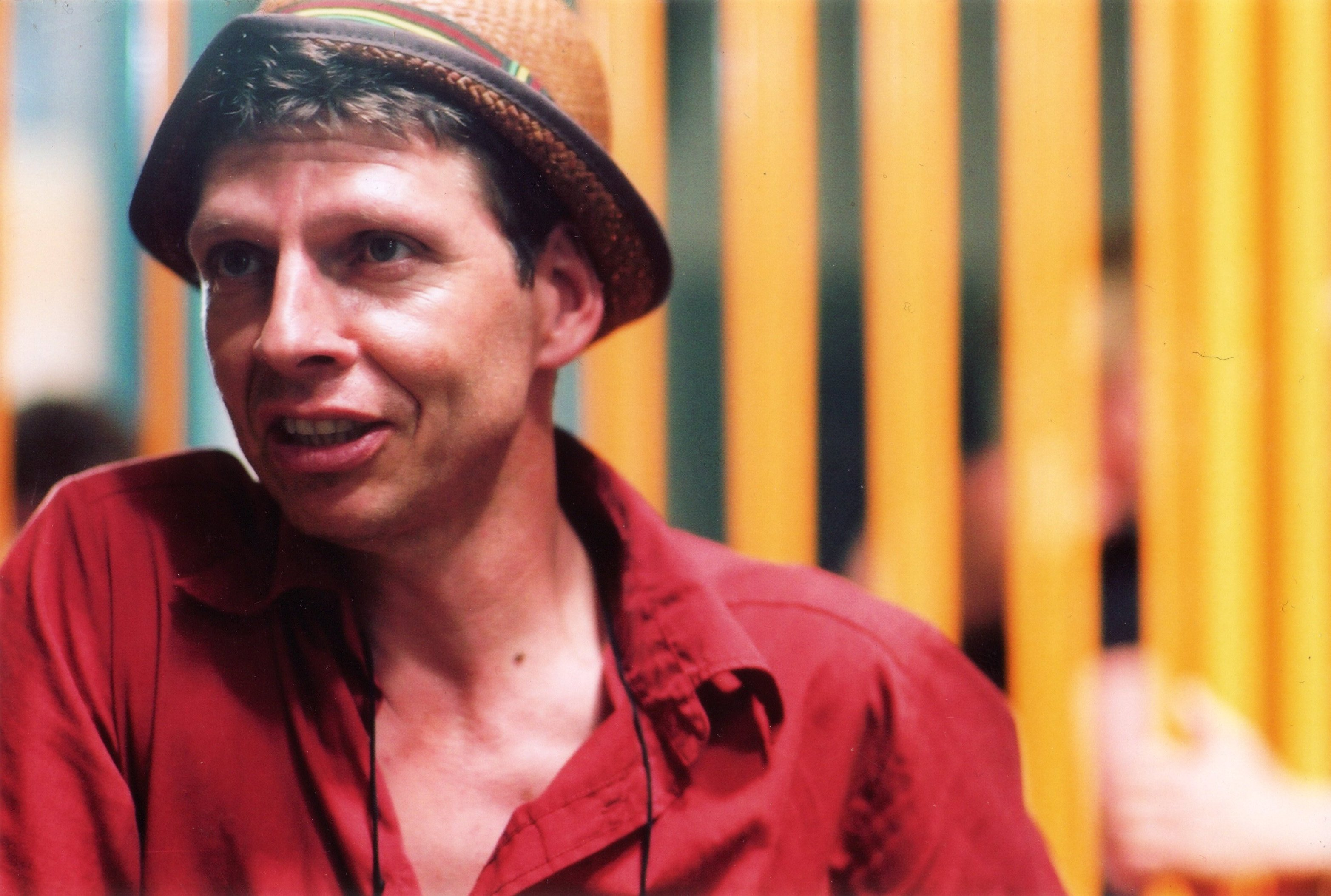 Director Armin Biehler in the Swiss prison "Schällemätteli" in Basel, working on "Chicken Mexiaine".